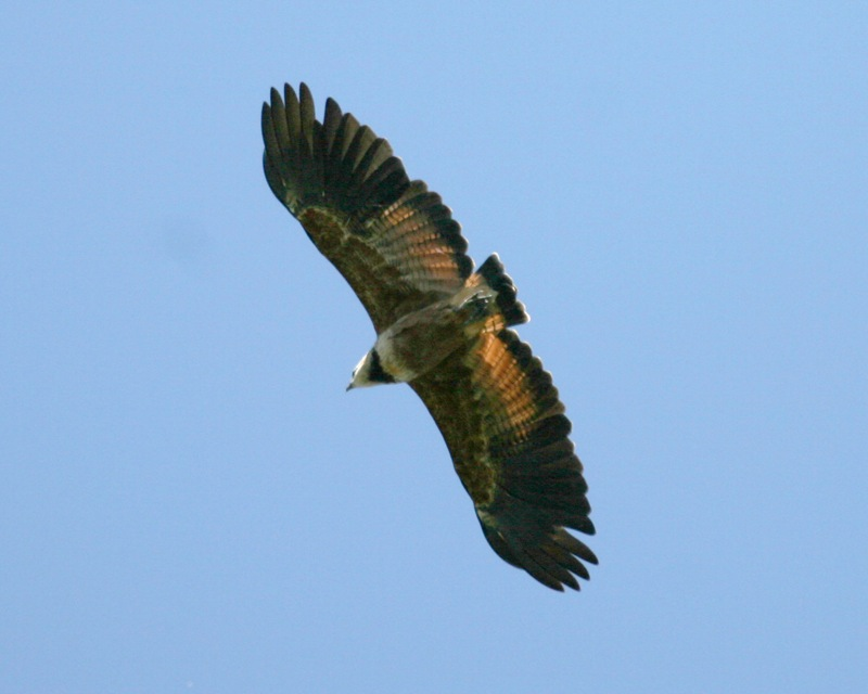 Black-collared Hawk Busarellus nigricollis, Ibera Marshes, Argentina